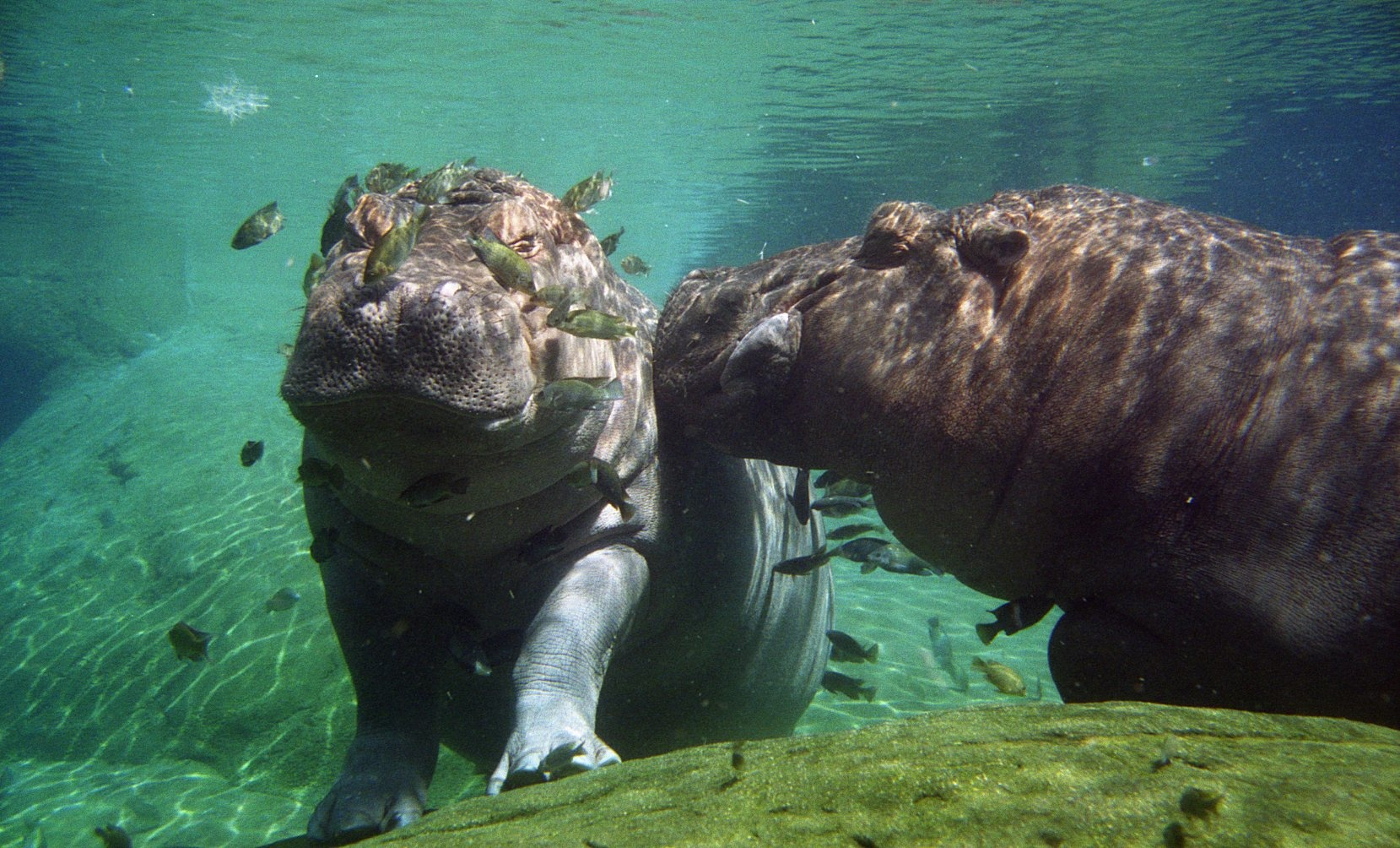 Two Hippopotamus at San Diego Zoo, California, USA.